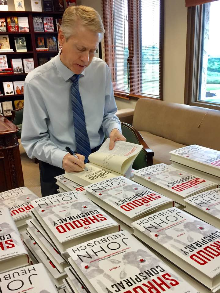 John Heubusch at a book aligning for The Shroud Conspiracy.